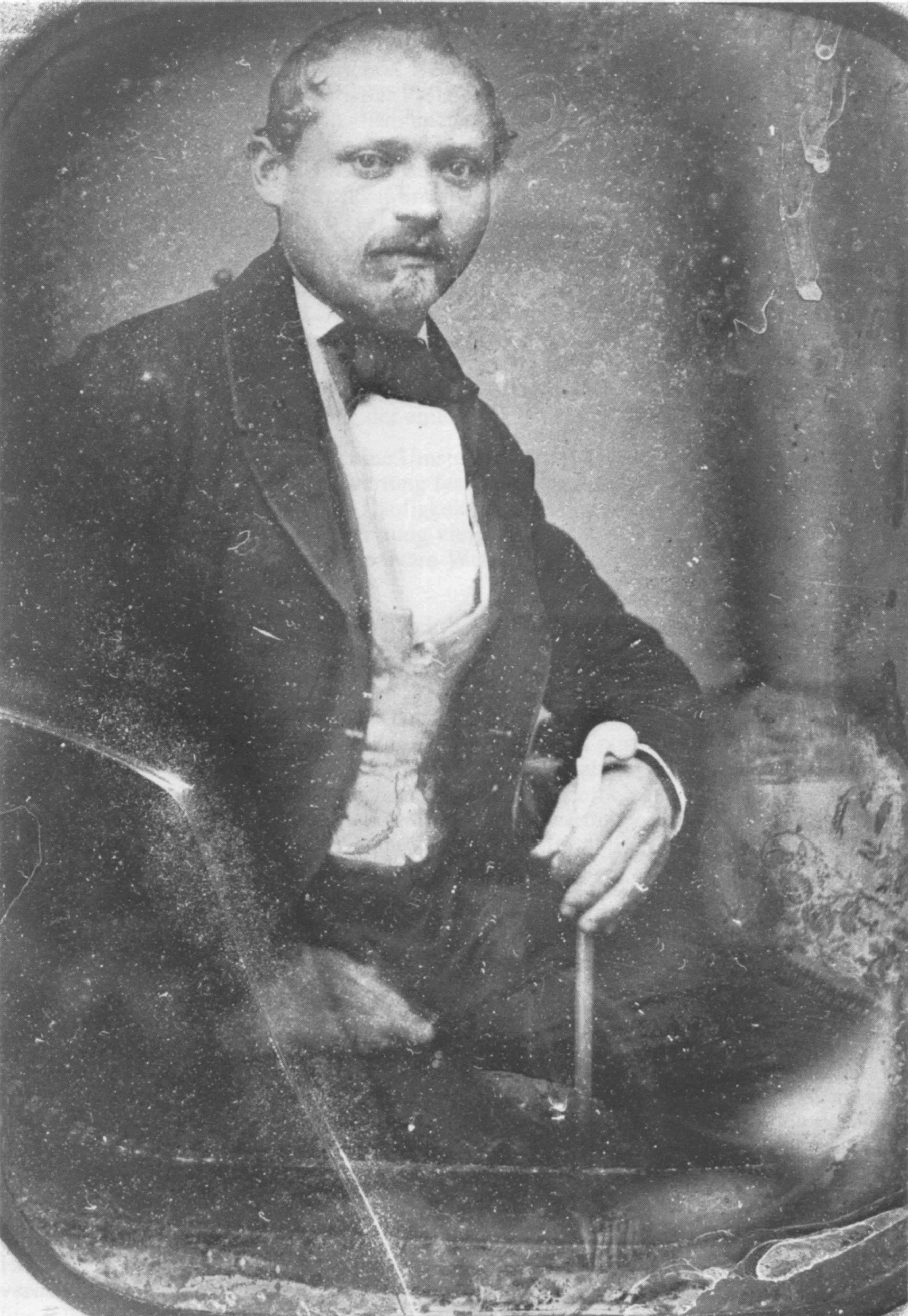 Julius Klaucke, German businessman, engraver and stamp manufacturer (1826-1903) Photo on copper plate